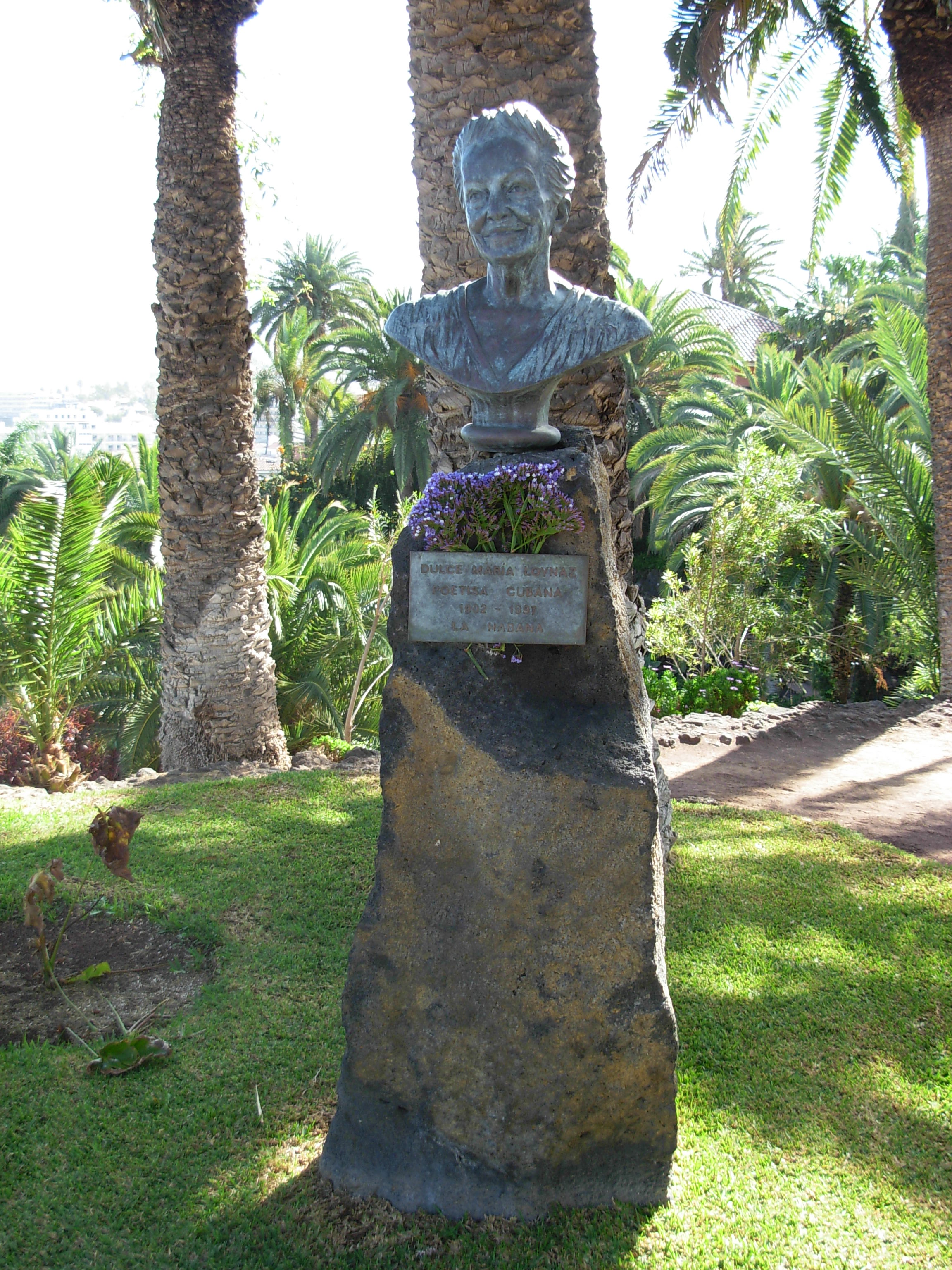 Monument to Dulce María Loynaz (1902 - 1997) — Cuban poet and master of the Castilian language. Located in Puerto de la Cruz, on the island of Tenerife, Spain. Bust by Cuban sculptor Carlos Enrique Prado Herrera, an cuban artist.